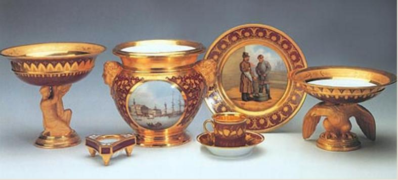 Przedmioty z Serwisu Gurievski(rosyjski)